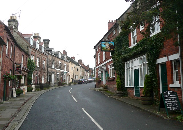 High Street and the Black Bull, Alton The Black Bull seemed to be the only place in Alton serving lunches on a November weekday, and we enjoyed it enough to come back the next day.